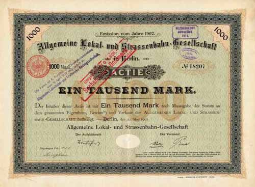 Deutsche Lokal- und Straßenbahn-Gesellschaft, Berlin, 21.5.1902, Aktie über 1000 Mark